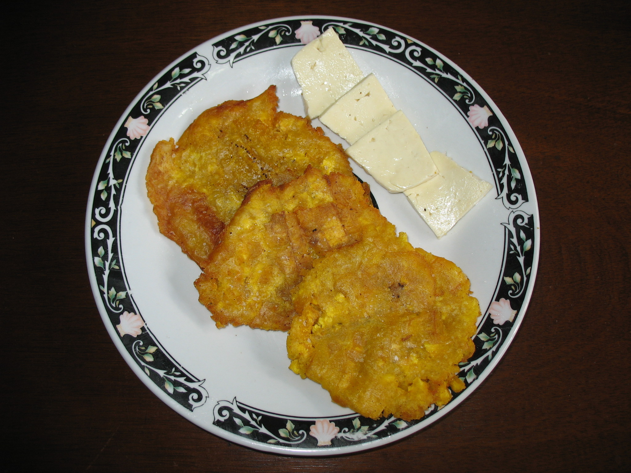 Patacones with costeño cheese - Barranquilla